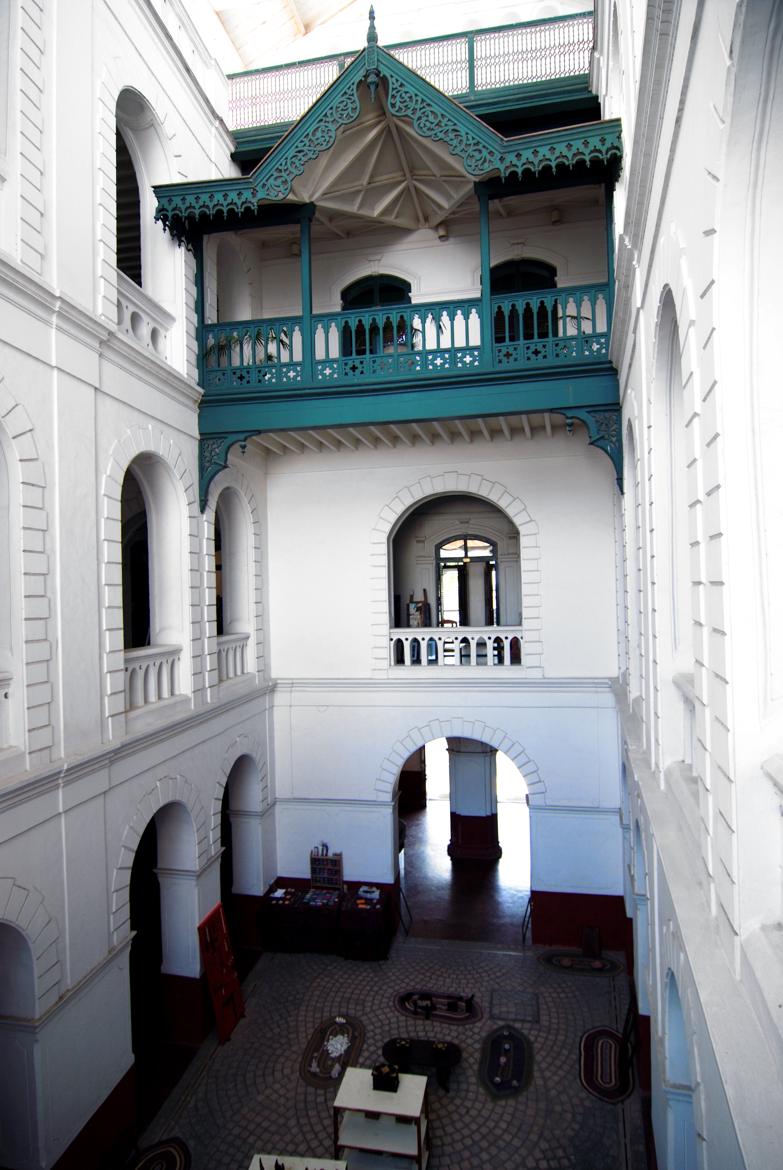 Inside view of the Old Dispensary in Stone Town, Zanzibar